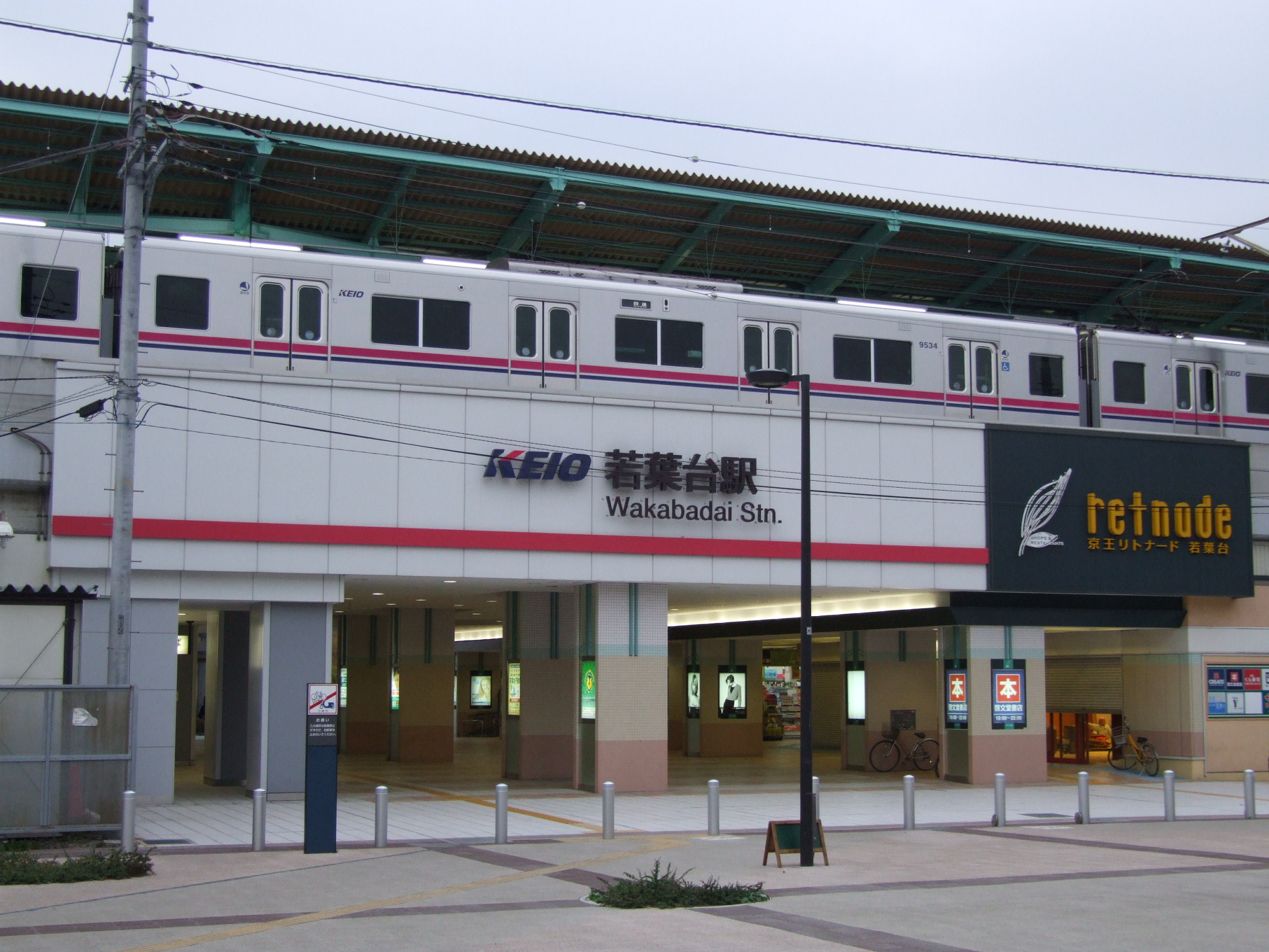 South Building of Wakabadai station, KTR SAGAMIHARA LINE, Keio Electric Railwey, Japan